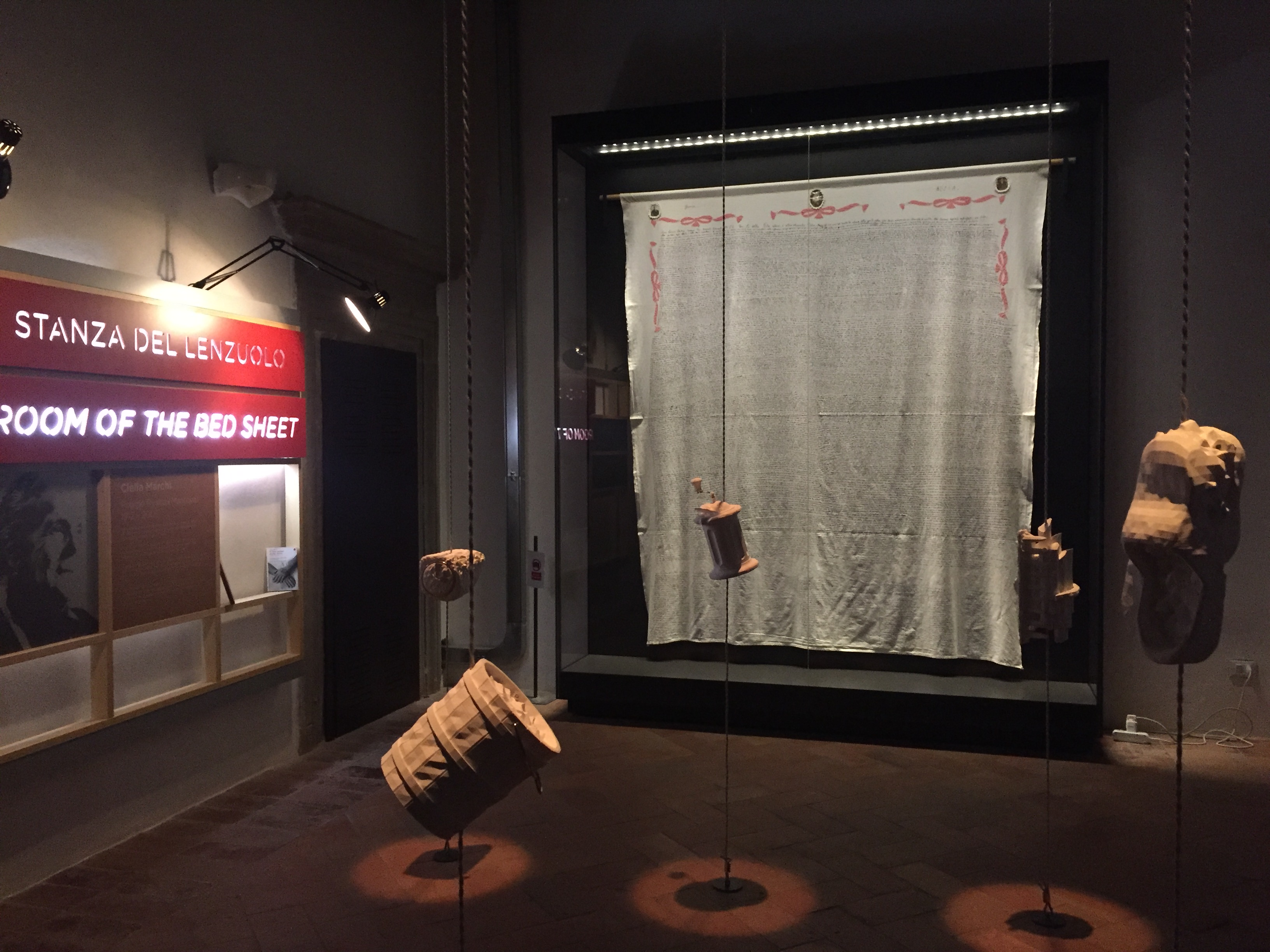 The room of the bed sheet of Clelia Marchi (Little Museum of the Diary, Pieve Santo Stefano, Italy)